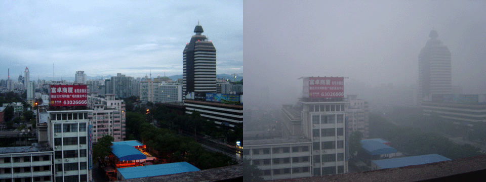 Smog! This is a pair of photos taken in Beijing by me during a trip to the People's Republic of China in August 2005. I was in Beijing twice over a period of a week and a half, both times at the same hotel and in approximately the same room. The photo on the right (yes, the right) was taken during a sunny, otherwise clear day on my first visit. The photo on the left (yes, the left) was on my second visit, after it had rained for approximately 2 days. Both of these photos were taken in the morning around the 07:00-08:00 hour. The difference is staggering, I can say that during the day that I took the second photo the air made walking around (and I did for miles) rather difficult.